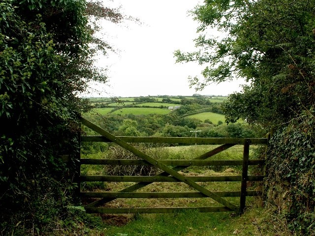 Farm gate at Gluvian. A view from the narrow Cornish lane heading North from St. Columb Major through Gluvian.